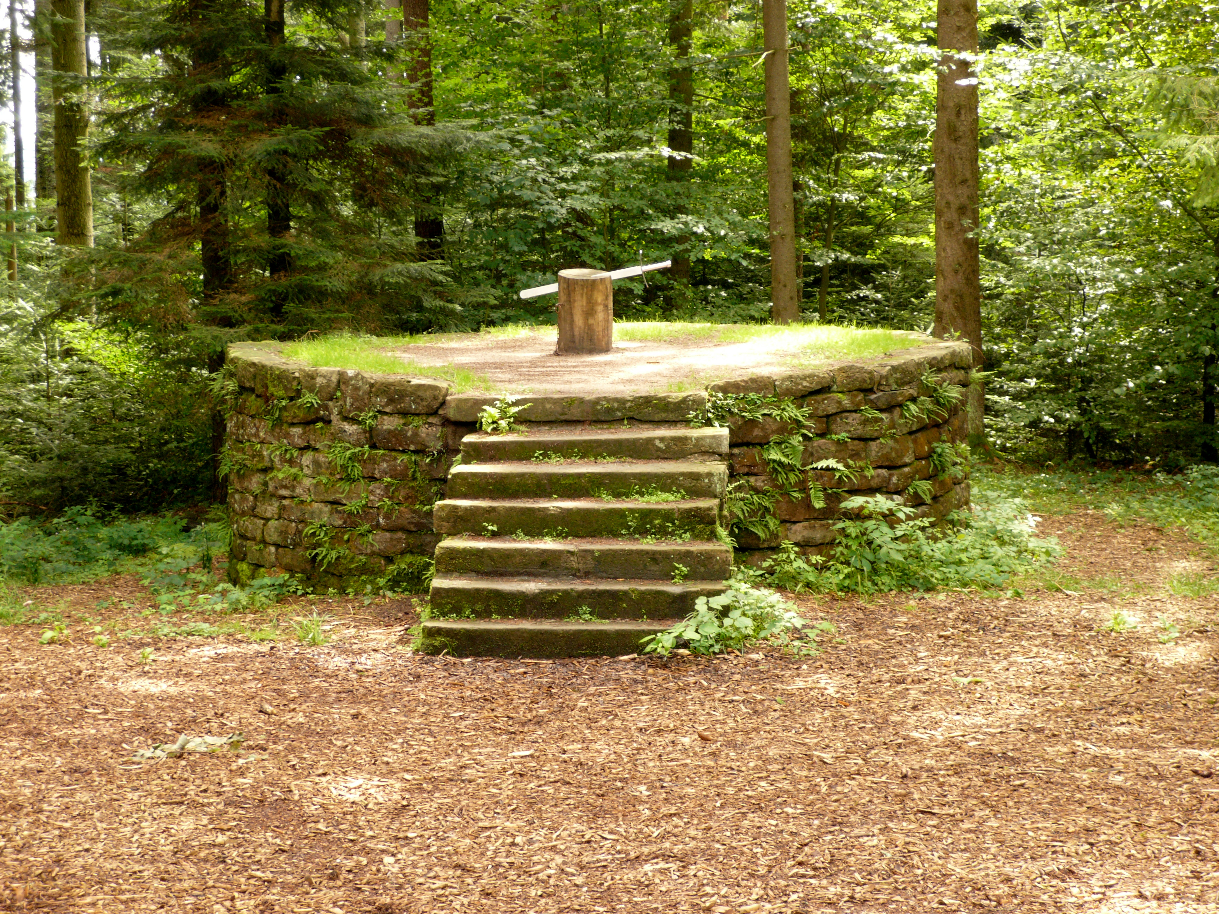 Calwer Schafott